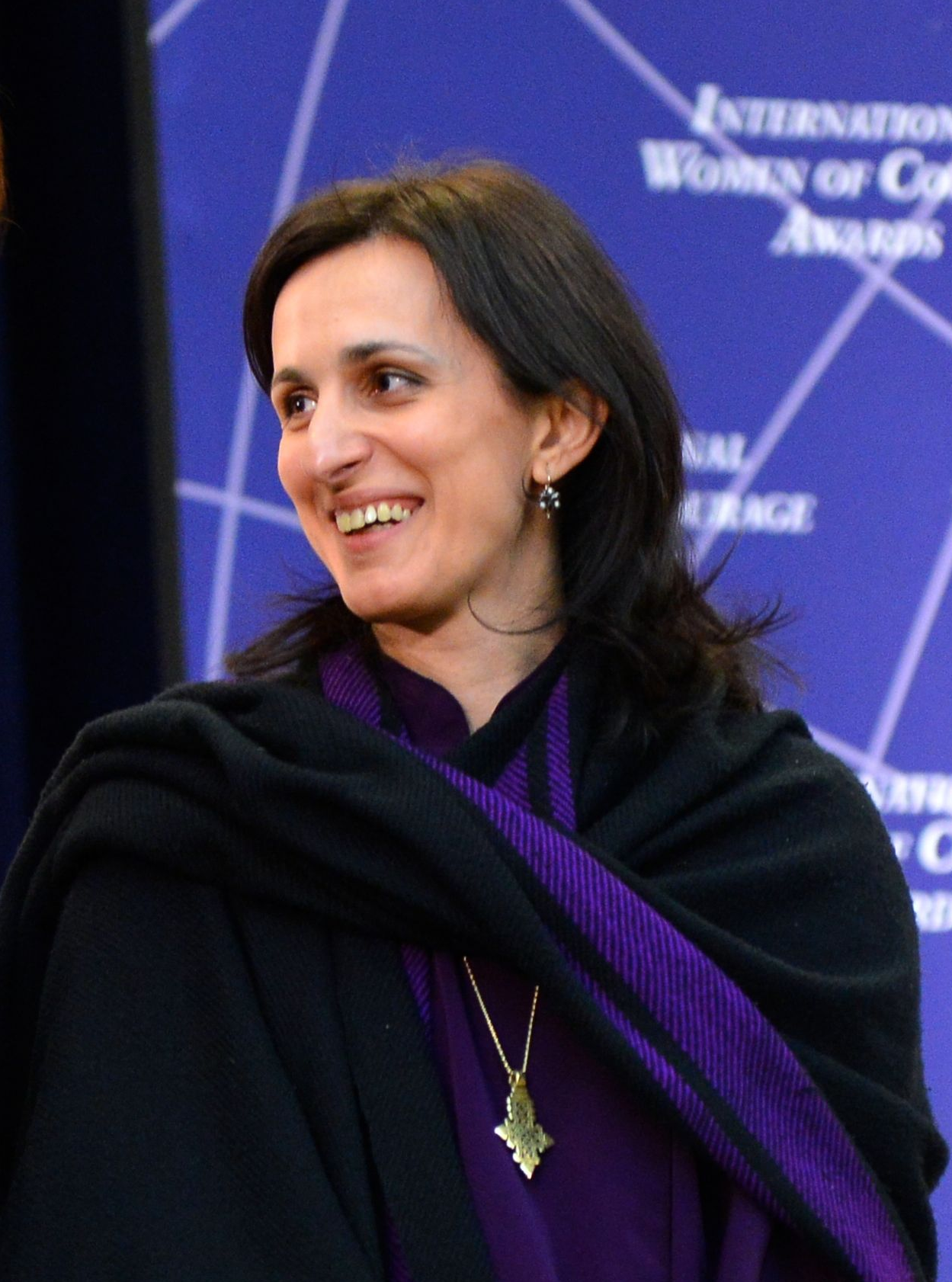 "Deputy Secretary Higginbottom and First Lady Michelle Obama recognized extraordinary women from around the globe with the Secretary of State’s International Women of Courage Award at a ceremony that took place on Tuesday, March 4, 2014, 11:30 a.m. at the Department of State."